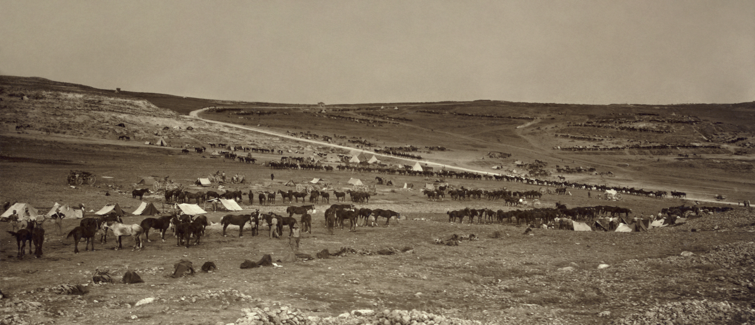 Australian camps on slopes of Olivet & Mt. Scopus.